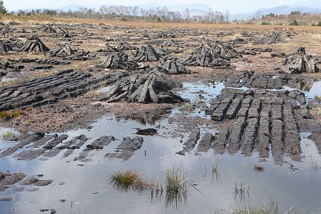 Kerry peat bog This section of peat bog has been cut by hand. The turfs are stacked "wigwam" style to dry out over the summer. Each area of bog will have been rented by a family to cut as required and enough will have been cut in the spring to last through the following winter.